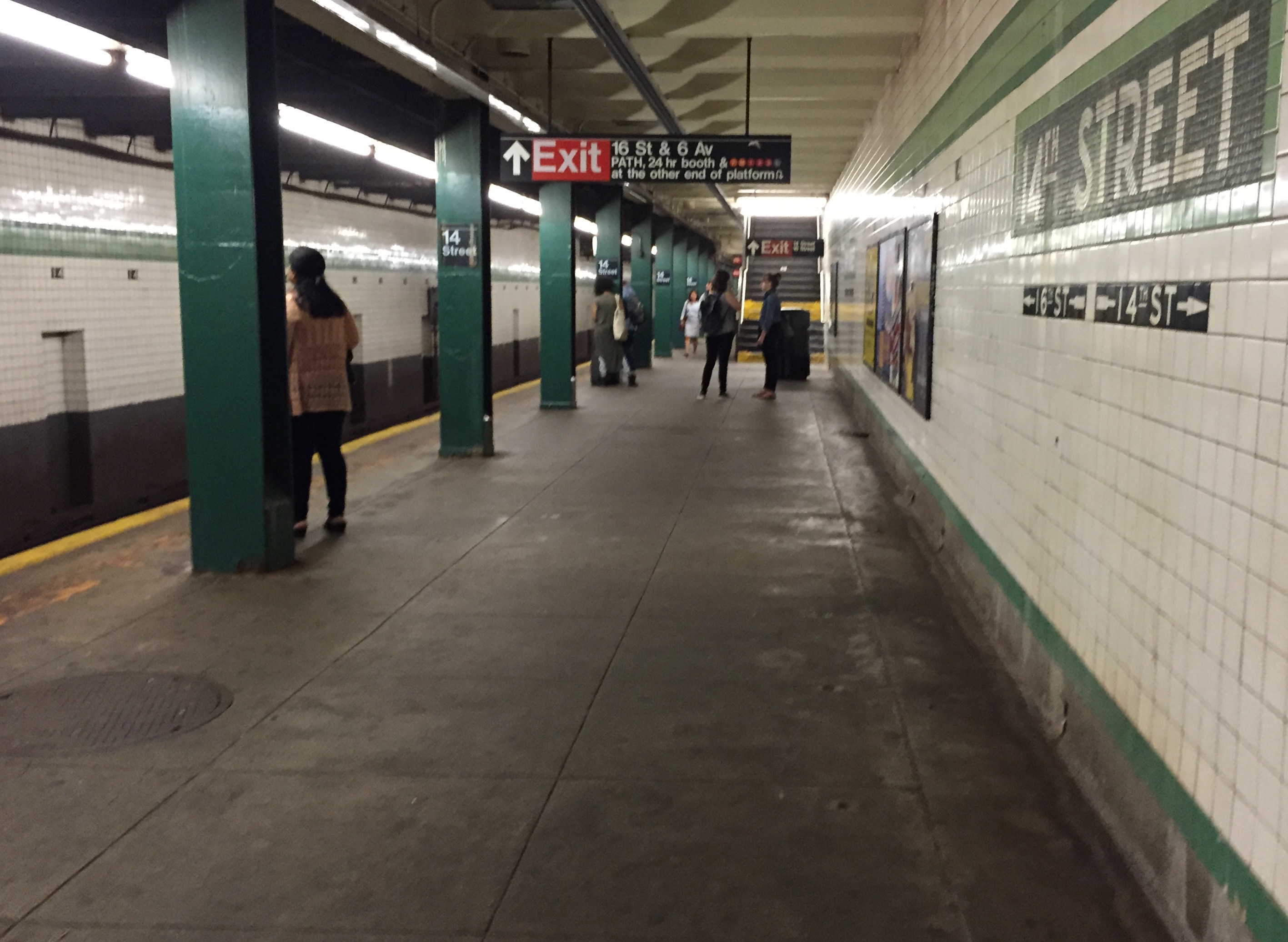 Downtown F/M platform at the 14 St-6 Av station.